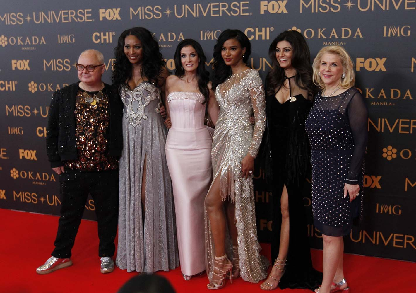 L-R 2016 Miss Universe beauty pageant panel of judges-- Mickey Boardman, Cynthia Bailey, former Miss U Dayanara Torres, Leila Lopes, Sushmita Sen, and Francine LeFrak pose at the Miss Universe Red Carpet event on Sunday evening(Jan 29,2017) at the SMX Convention Center in Pasay City (PNA photo by Avito C.Dalan)